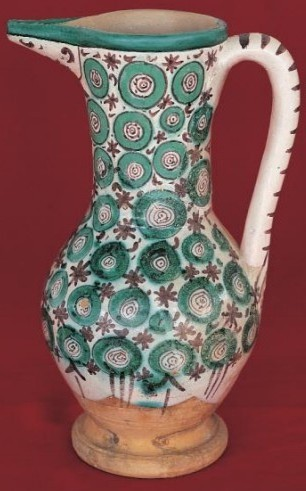 Pichella, pichela, or picher (JUG); 25.5 x 8.5 cm. subsequently used as a measure of wine, equivalent to half a litre. Material from the Plaza of the Jewish quarter of Teruel, and dated in the first half of the 14th century. Funds from the Provincial Museum of Teruel.